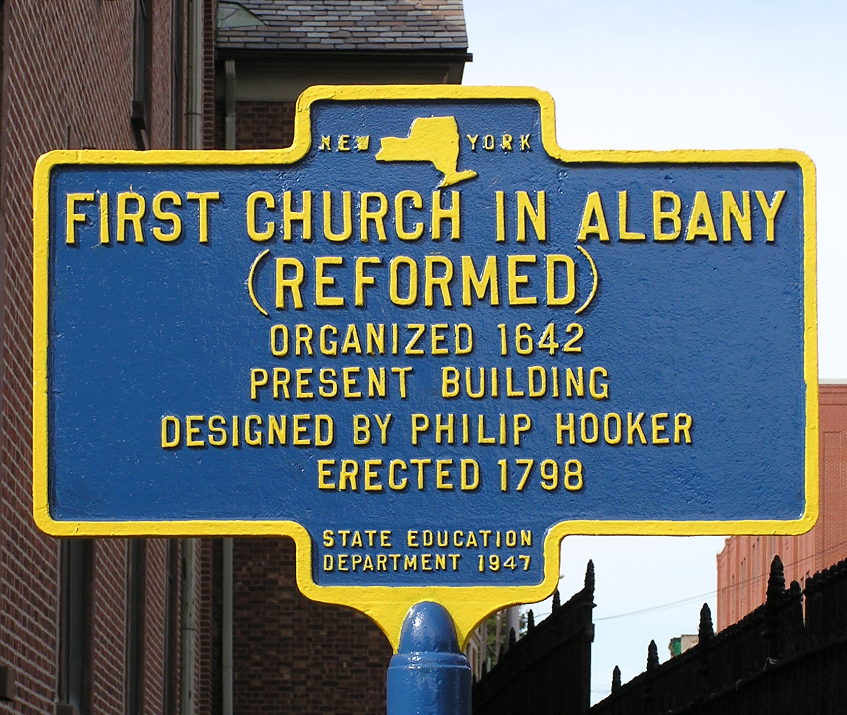 Location: Corner N. Pearl And Orange Sts. Albany, New York N 42 39.21 W 73 45.02 Text: First Church in Albany (Reformed) Organized 1642 Present Building Designed by Philip Hooker Erected 1798 State Education Department 1947